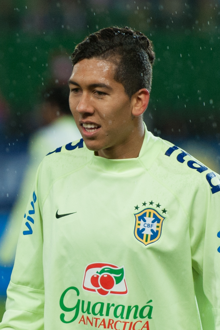 International Friendly Austria - Brazil November 18, 2014: Firmino